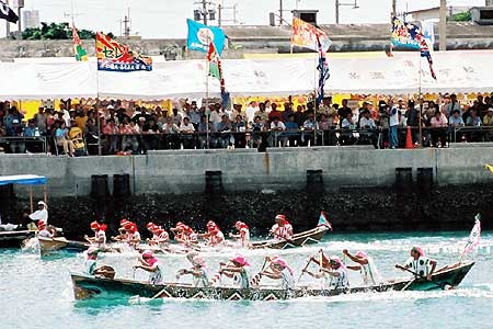 Itoman Hare